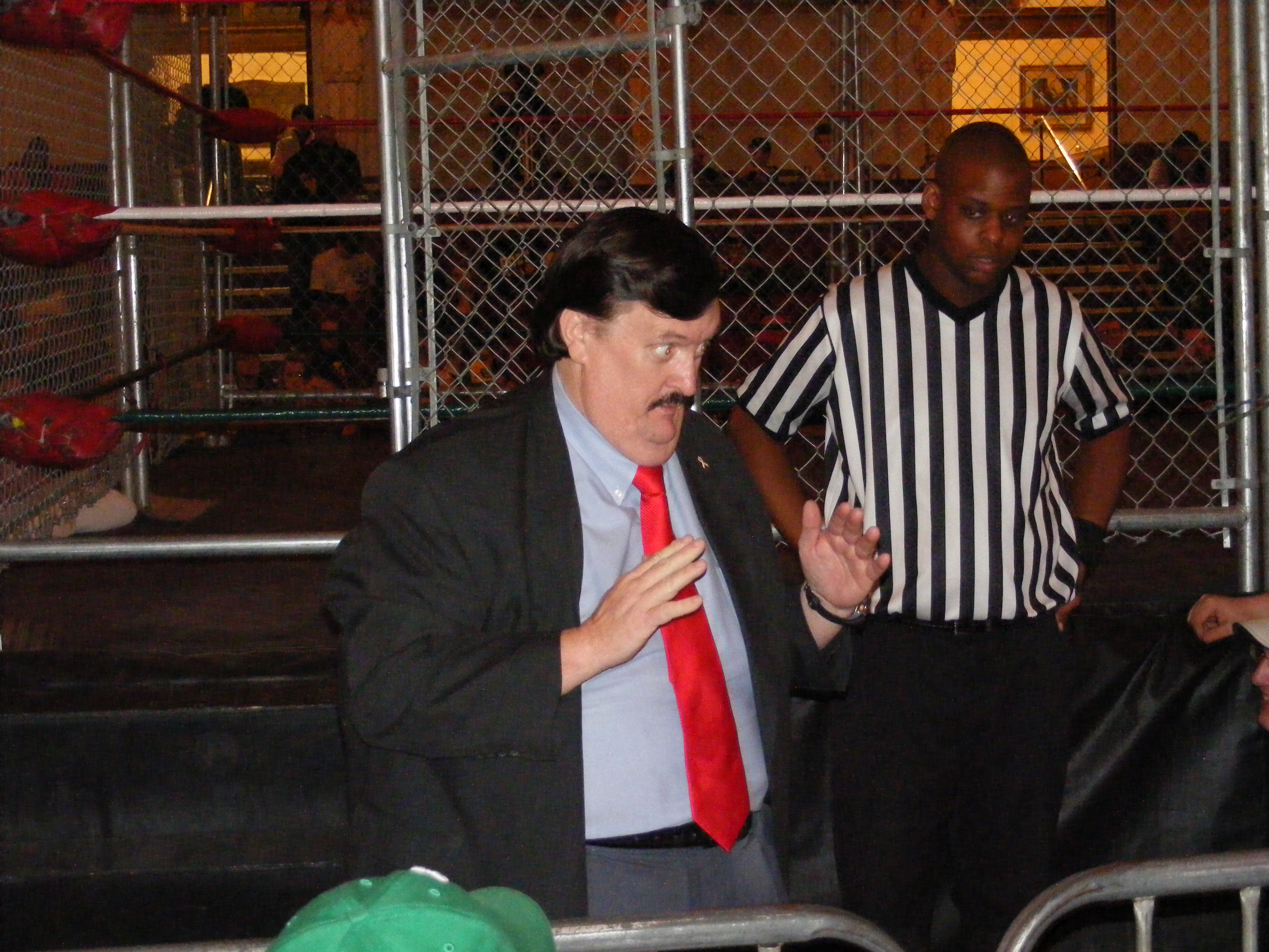 Percy Pringle at a MFW show in Melrose MA on January 8, 2011.